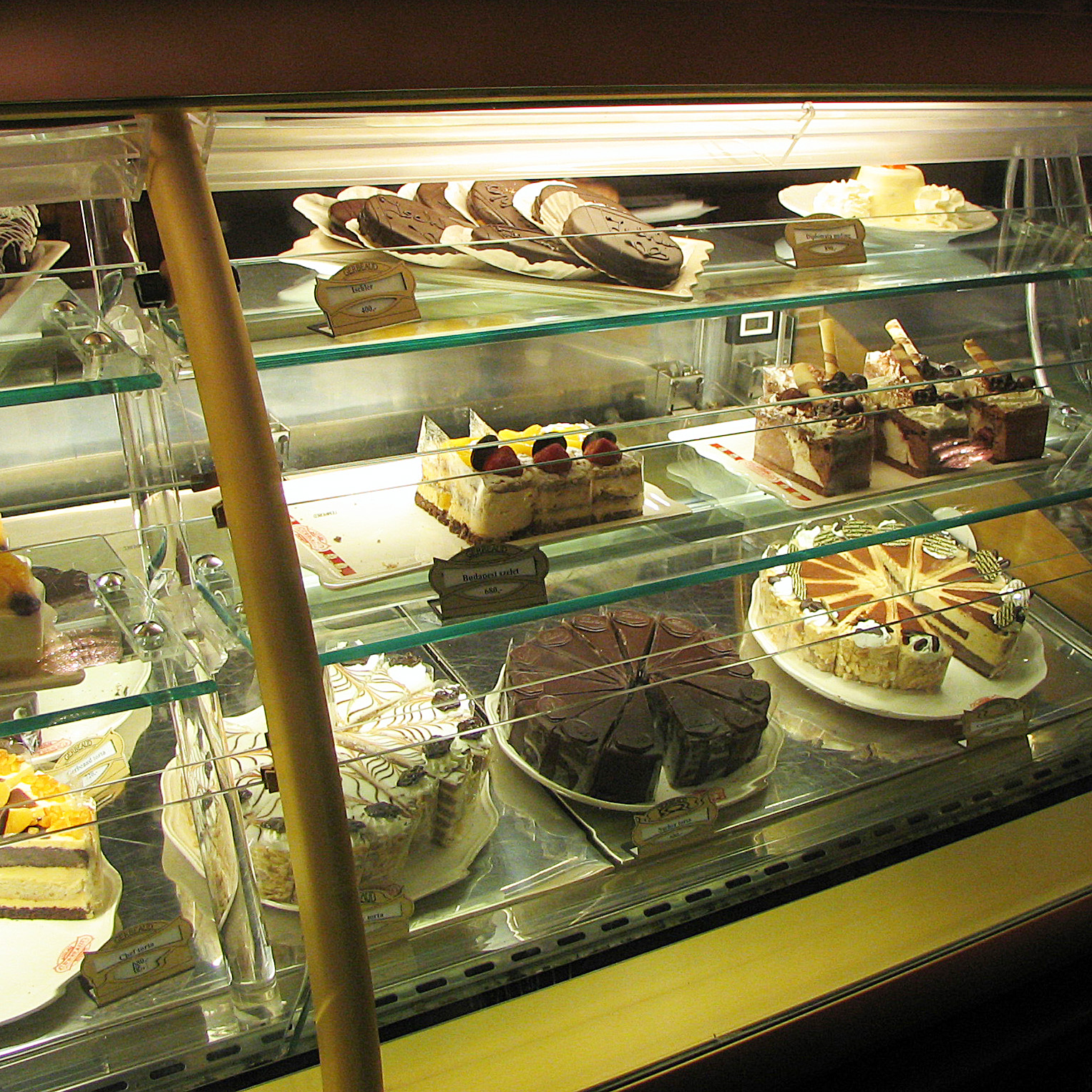 Café Gerbeaud, Budapest